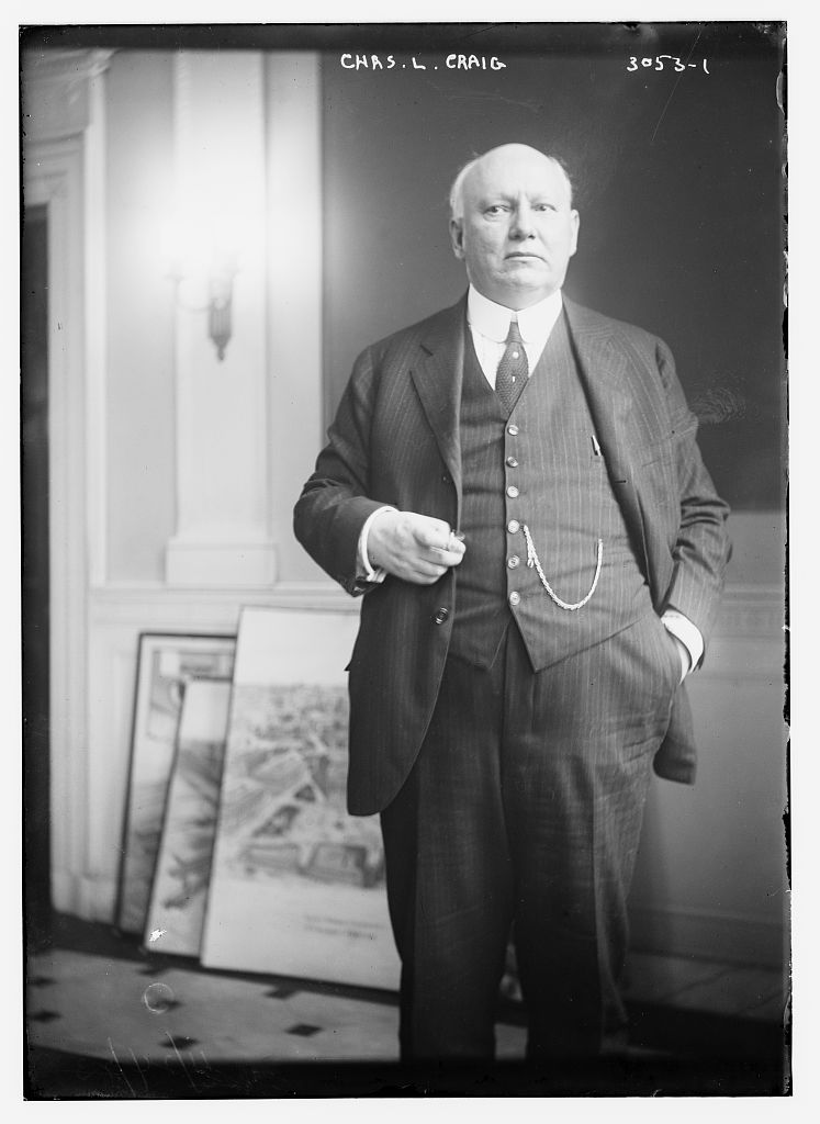 Charles L. Craig in 1914 (LOC) Bain News Service,, publisher. Chas. L. Craig [between ca. 1910 and ca. 1915] 1 negative : glass ; 5 x 7 in. or smaller. Notes: Title from unverified data provided by the Bain News Service on the negatives or caption cards. Forms part of: George Grantham Bain Collection (Library of Congress). Format: Glass negatives. Repository: Library of Congress, Prints and Photographs Division, Washington, D.C. 20540 USA, General information about the Bain Collection is available at Persistent URL: Call Number: LC-B2- 3053-1